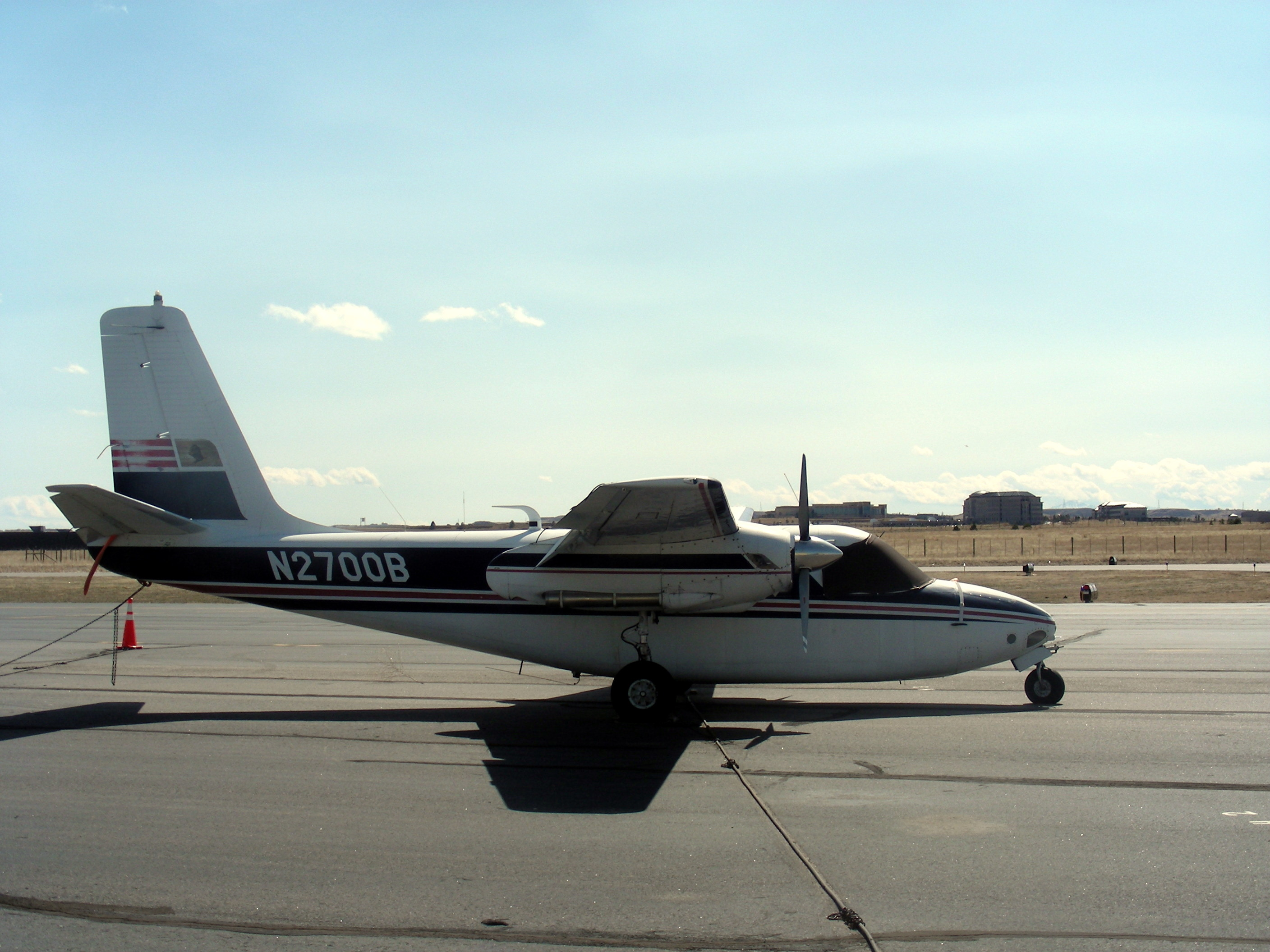 Aero Commander 560 at Centennial Airport